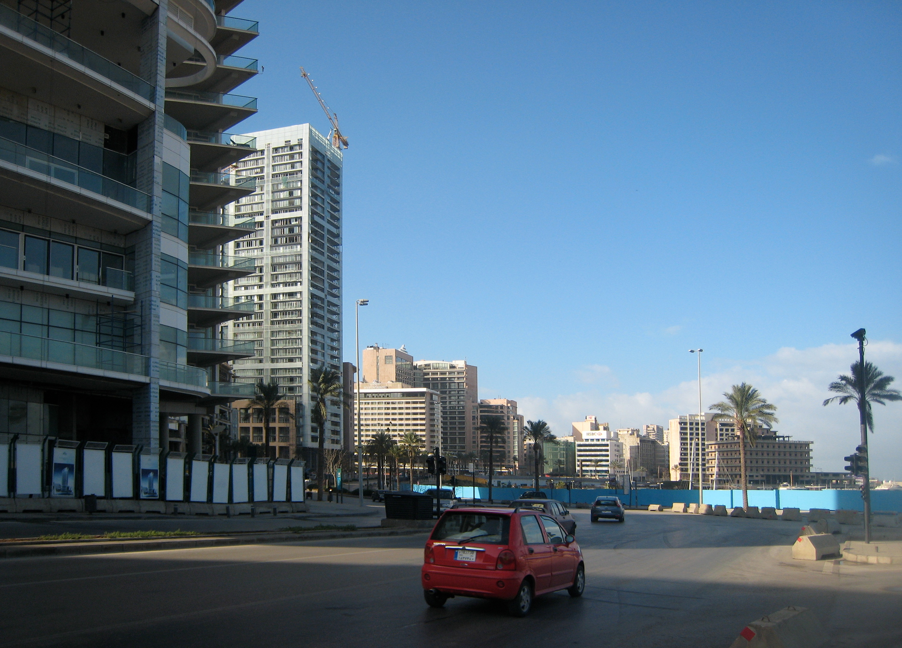 Wafik Sinno, centrale Beirut